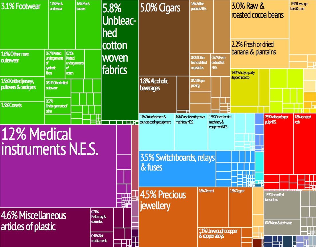 Export Trading Treemap. From MIT/Harvard Atlas of Economic Complexity